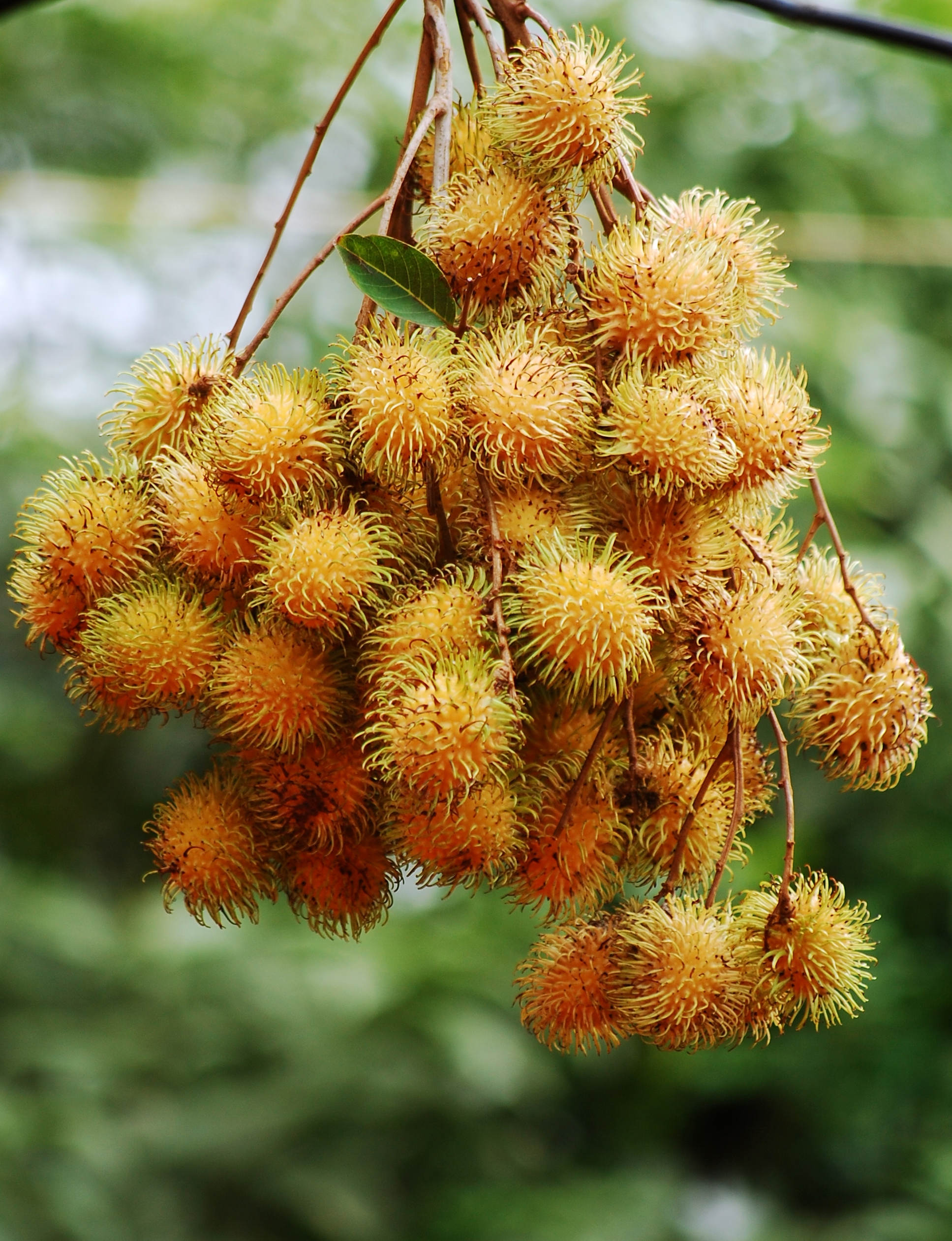 Rambutan - Rambutan in Indonesian or Malay literally means hairy or hairy fruit caused by the 'hair' that covers this fruit. In Panama, Costa Rica, and Nicaragua, it is known as mamón chino. Thailand is the largest producer. Budded trees may fruit after 2-3 years with optimum production occurring after 8-10 years. Trees grown from seed bear after 5-6 years.Rambutan